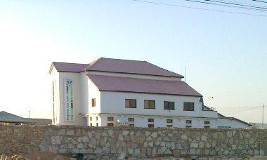 A public library in Garowe, Somalia.